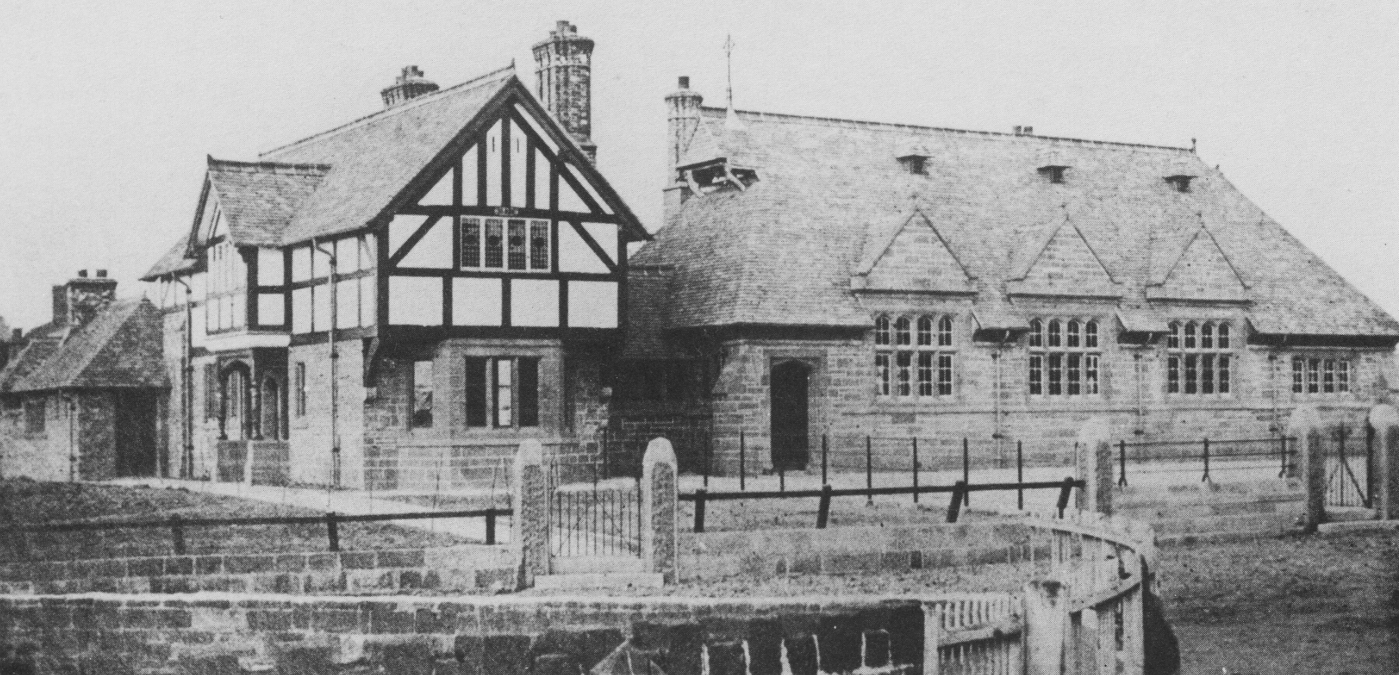 Photograph of the school and schoolmaster's house at Waverton, Cheshire, England. Scanned and enhanced by me.